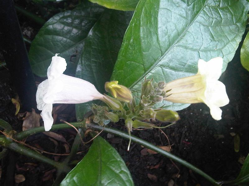 Asystasia scandens at Kew Gardens, England.